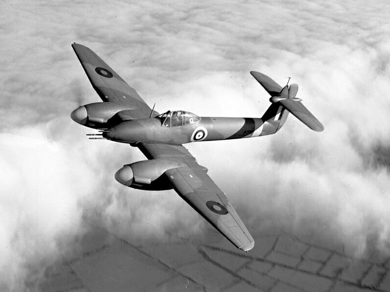 Chief test pilot of Westland, Harald Penrose flying one of the last production Whirlwinds P7110. A Westland Whirlwind British twin-engined WW2 fighter flying above some clouds with the ground still visible